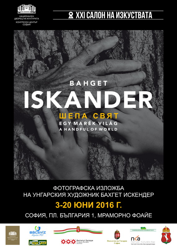 Bahget Iskander „A Handful of World“ photographic exibithion in Bulgaria